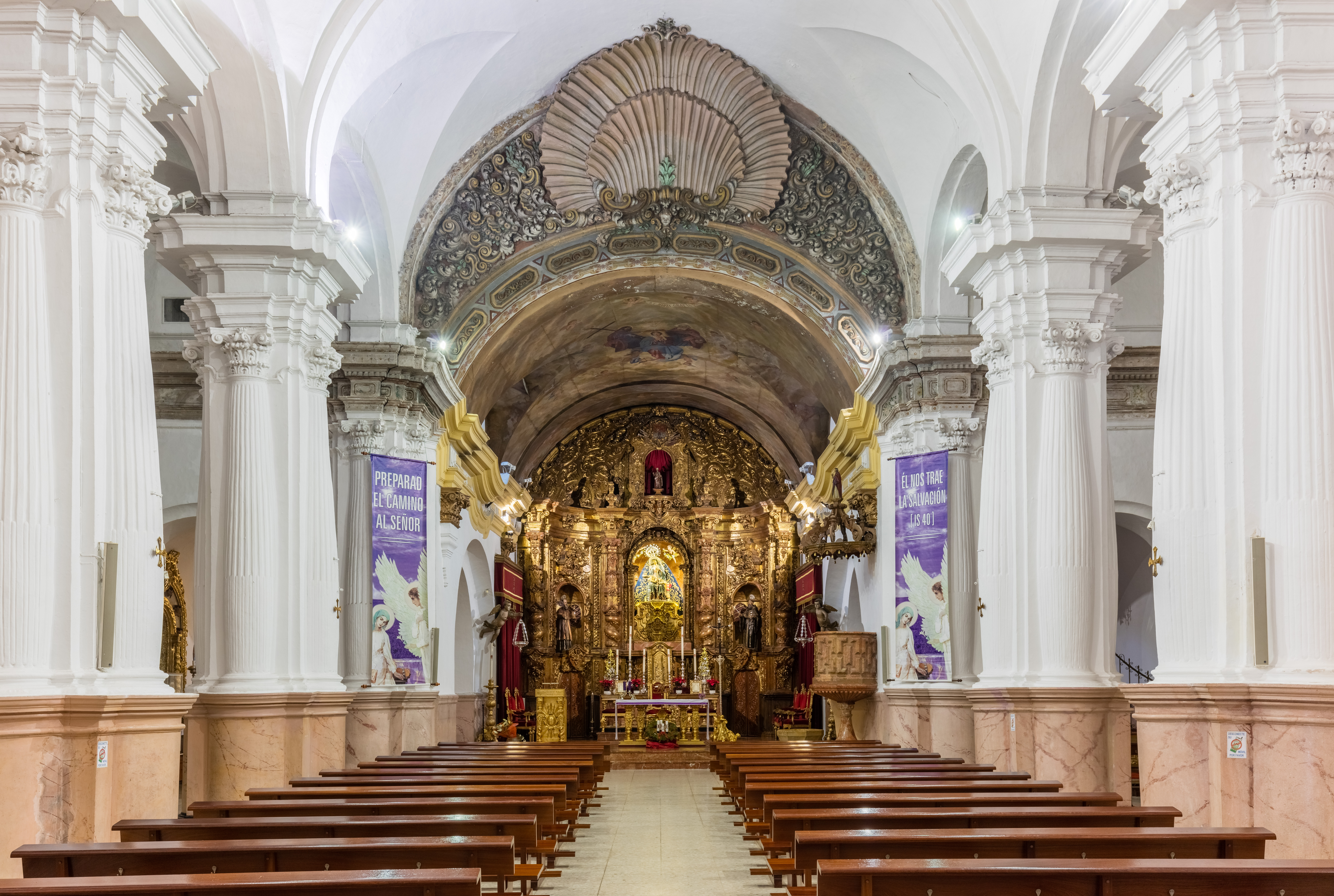 The church of Santa María de África is a Roman Catholic church located in the city of Ceuta, a Spanish exclave on the north coast of Africa. The temple is dedicated to Santa María de África, the patron saint of the city. In 1421 Henry the Navigator sent to Ceuta an image of Our Lady of Africa that guided to the first temple built to honour her in the current location, but no remains have been found from the medieval age. The church is of Baroque style and the first evidence of its existence dates from 1676. The church undergoed a renovation during the first half of the 18th century resulting in its current appearance.